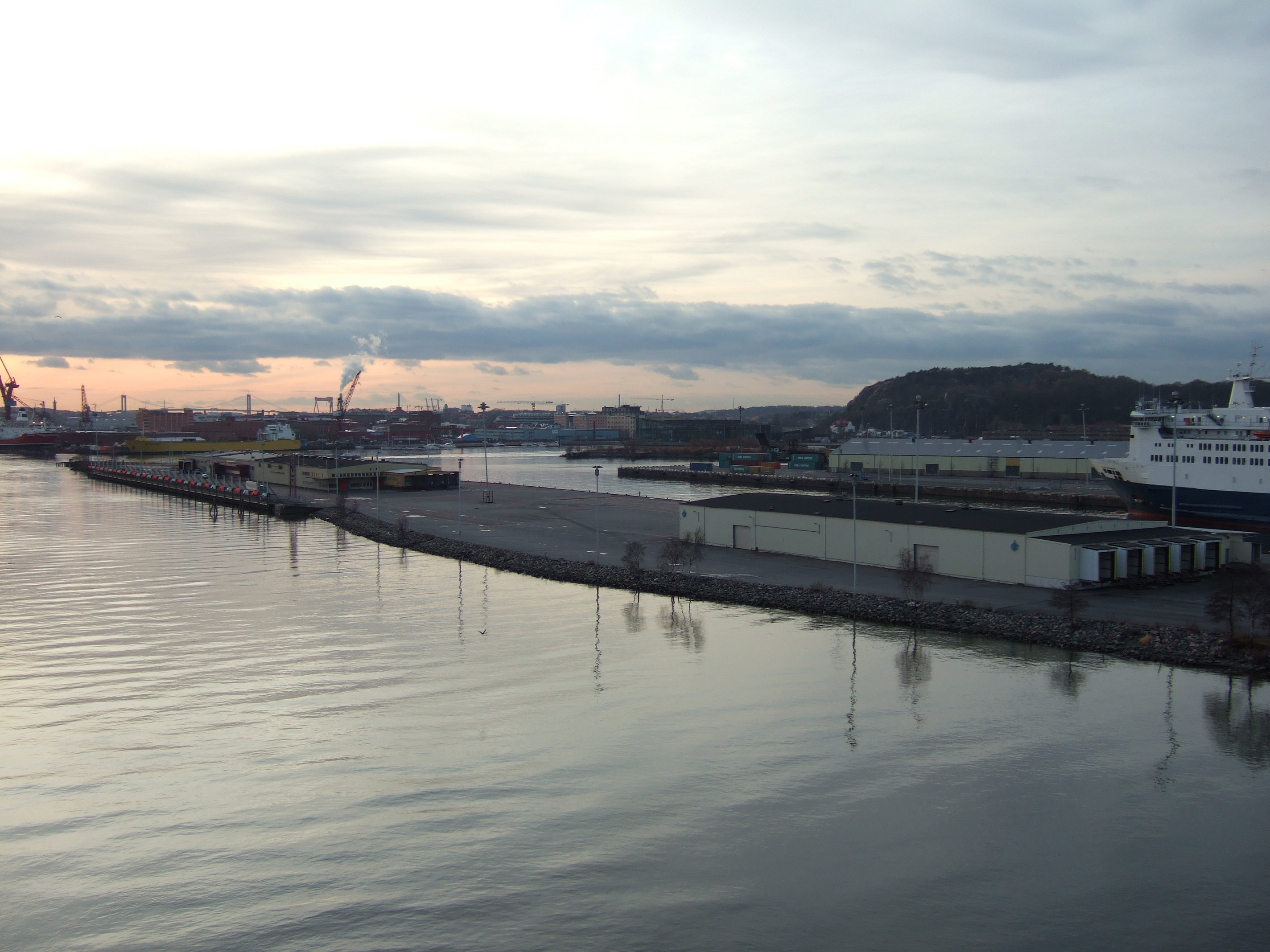 The Free Port in Gothenburg, Sweden. The Banana Pier in the foreground